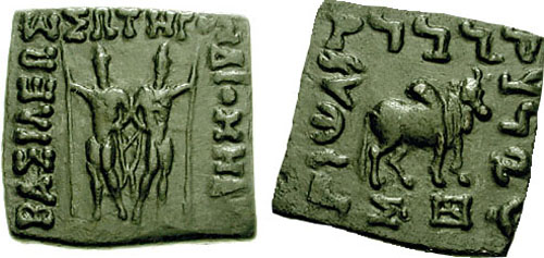 Coin of the Indo-Graeco king Diomedes